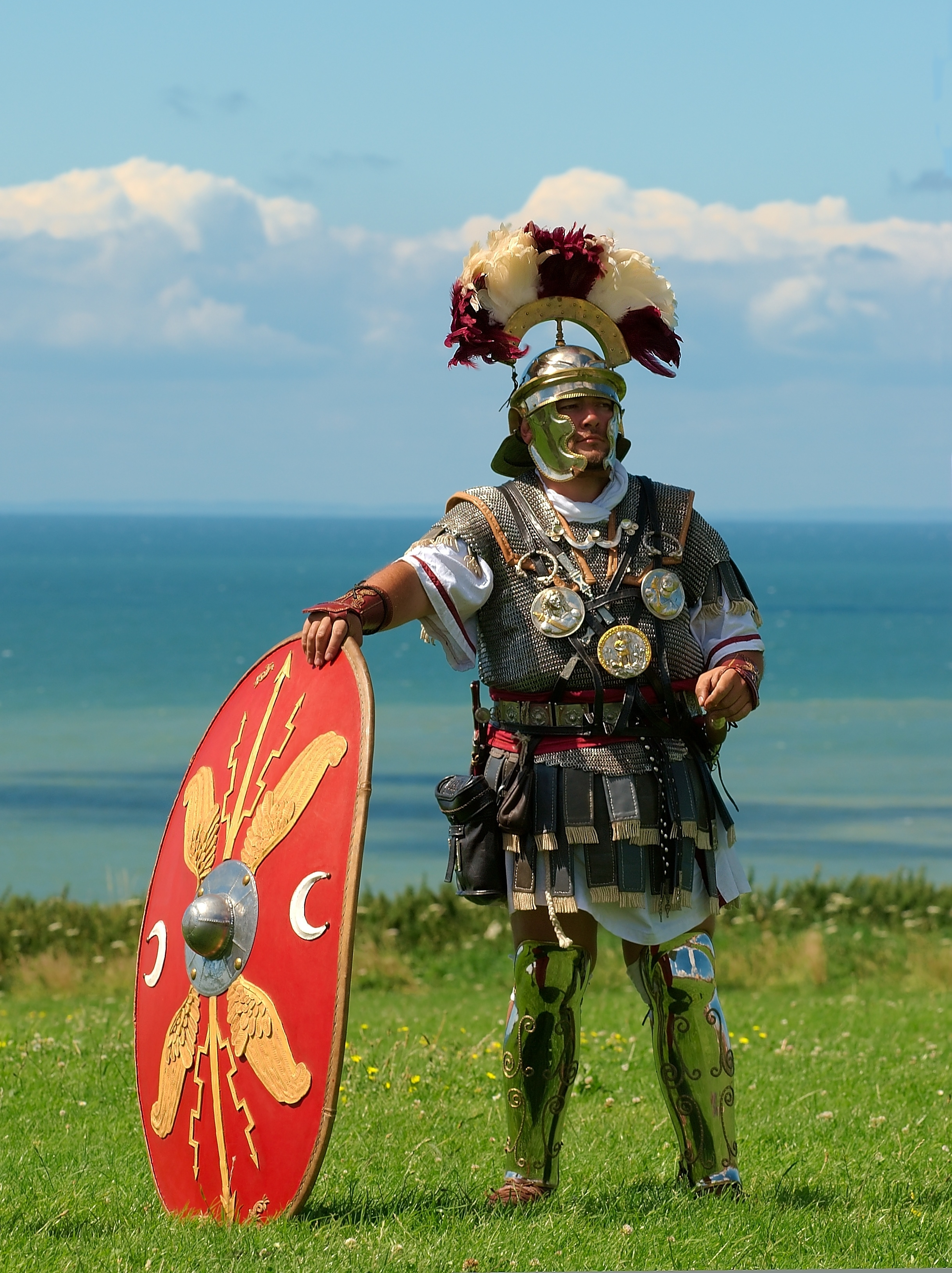 Centurion (Roman army) historical reenactment Boulogne sur mer (France).